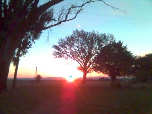 Sunset over paddocks in Kingston (Dajarra Golding)